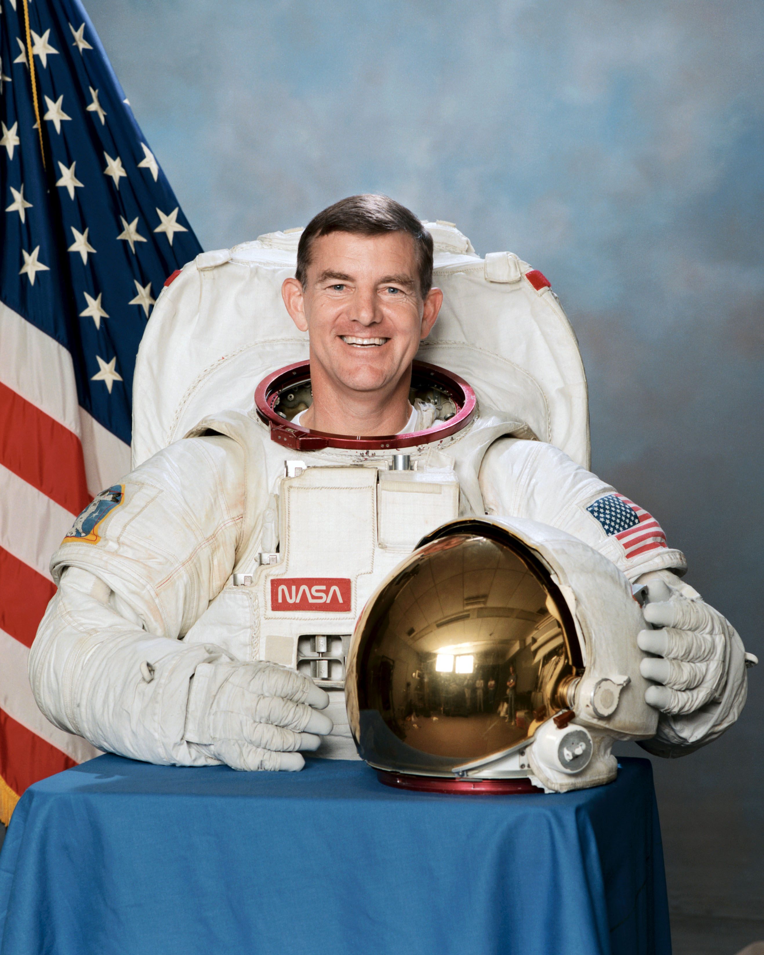 Astronaut James S. Voss will ride aboard Discovery to serve on the Expedition Two crew on the International Space Station (ISS)